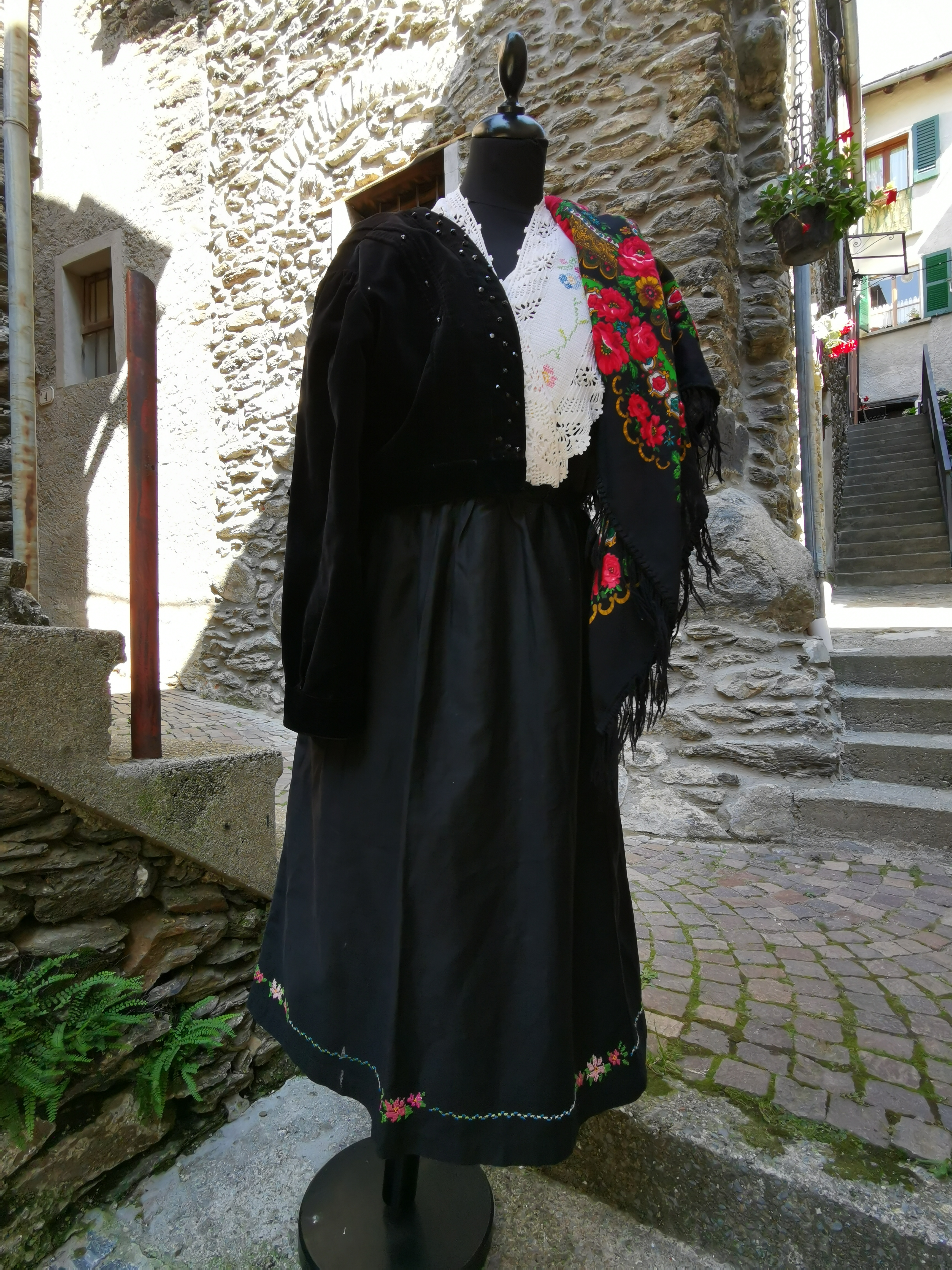 Vestito caratteristico della Valvarrone